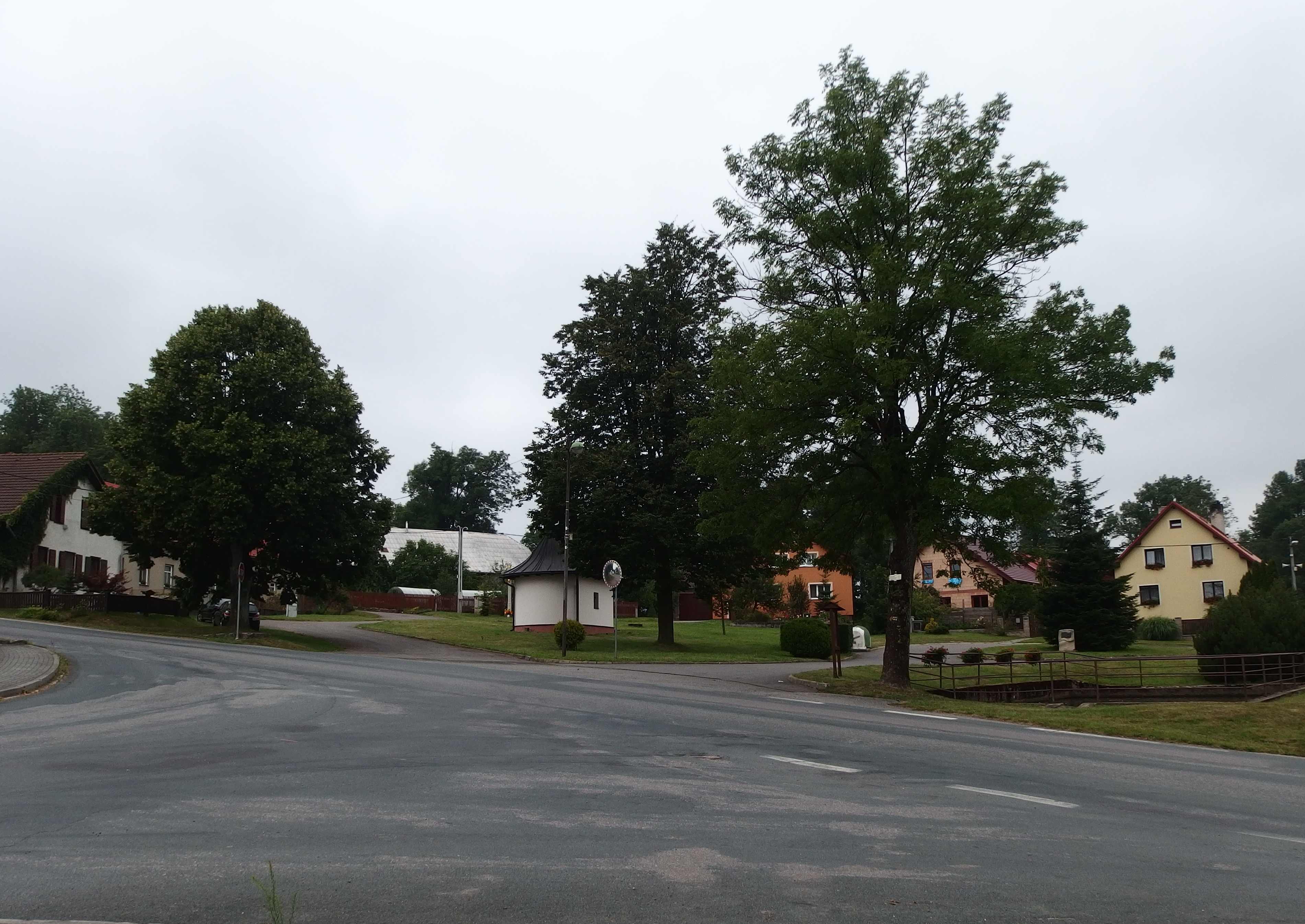 Vysoké, Žďár nad Sázavou District, Czechia.